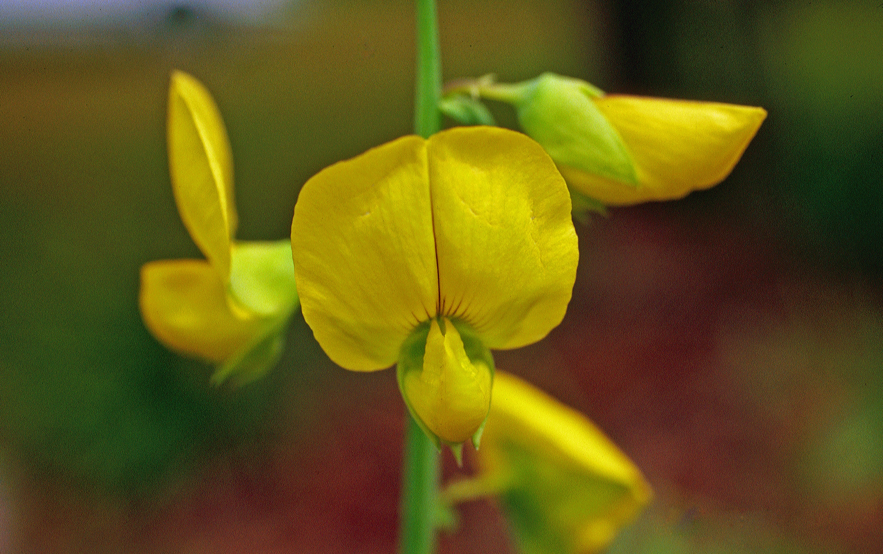 Crotalaria spectabilis This image is Image Number 1391154 at Forestry Images, a source for forest health, natural resources and silviculture images operated by The Bugwood Network at the University of Georgia and the USDA Forest Service.